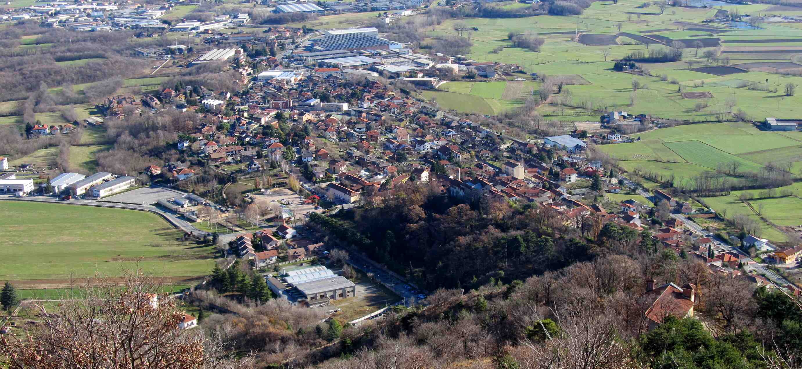 Caselette (TO, Italy) seen from Mount Musinè; in the foreground on the right Saint Abaco's sanctuary